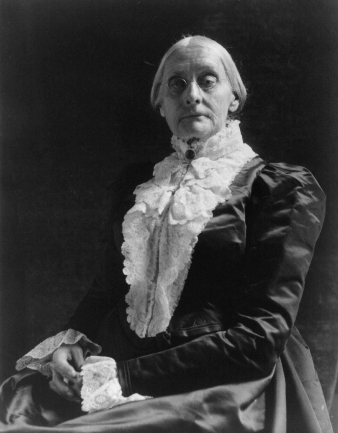 American civil rights leader Susan B. Anthony (1820-1906) by Frances Benjamin Johnston.(1864-1952). It appears to have been taken at the same time as Portrait_of_Susan_B._Anthony.jpg, which was copyrighted in 1900.